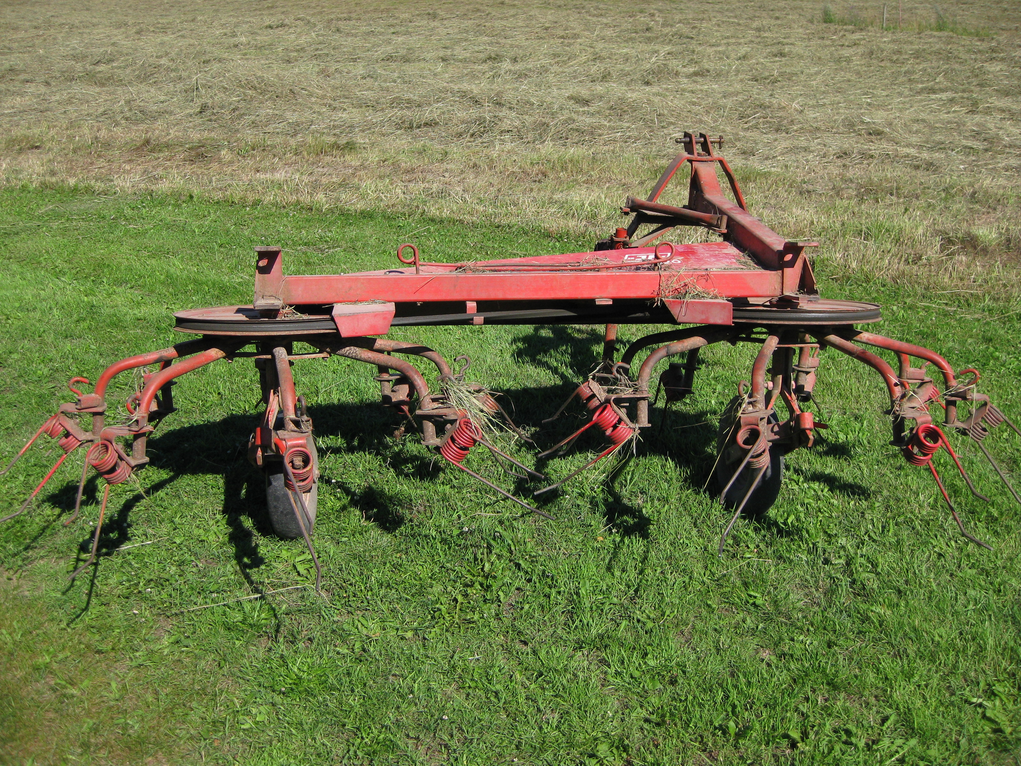 JF CR 320 hay tedder and hay rake combo machine. Swath former drums are not present in the picture.